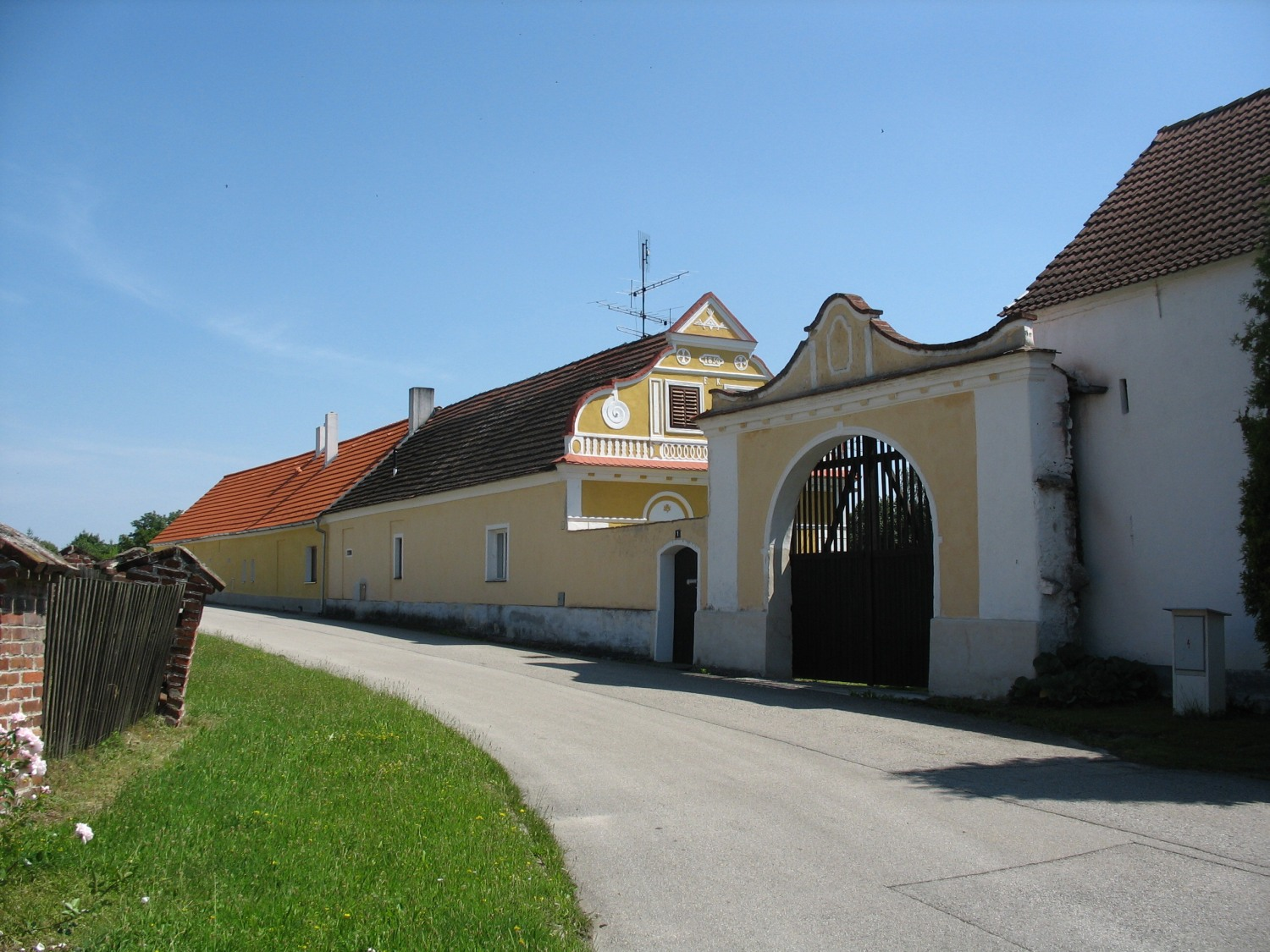 Zbudov, part of Dívčice municipality, České Budějovice District, Czech Republic